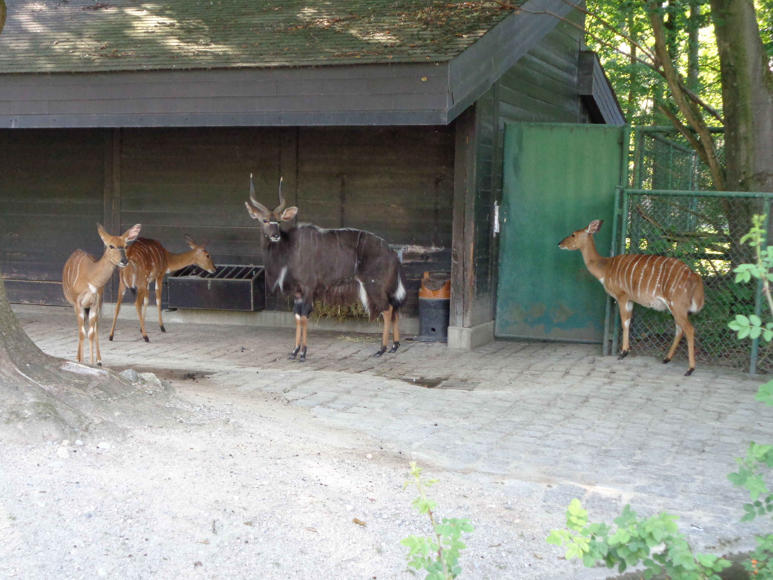 Nyala family in the Hellabrunn Zoo, Munich, Germany